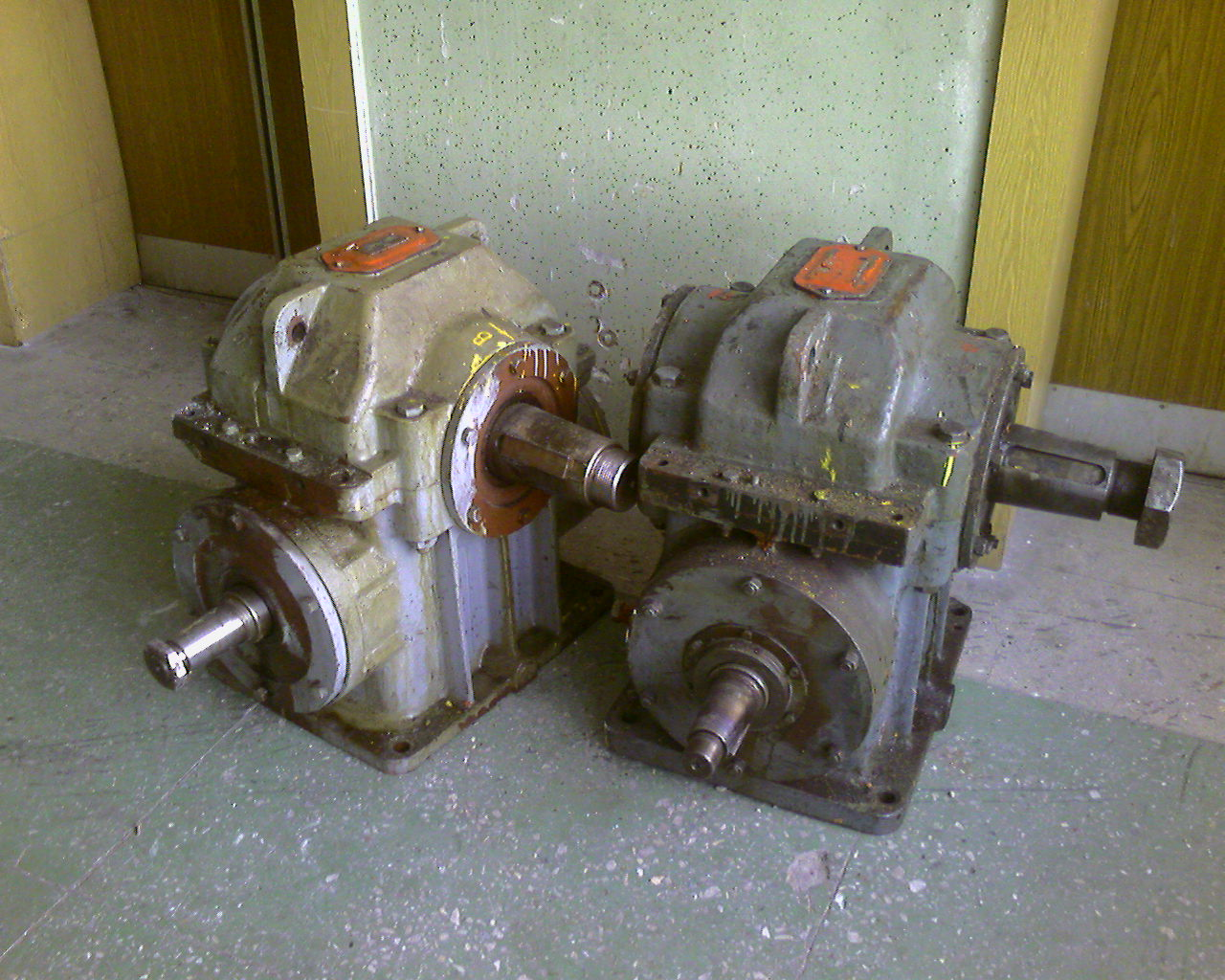 Elevator Gear Units